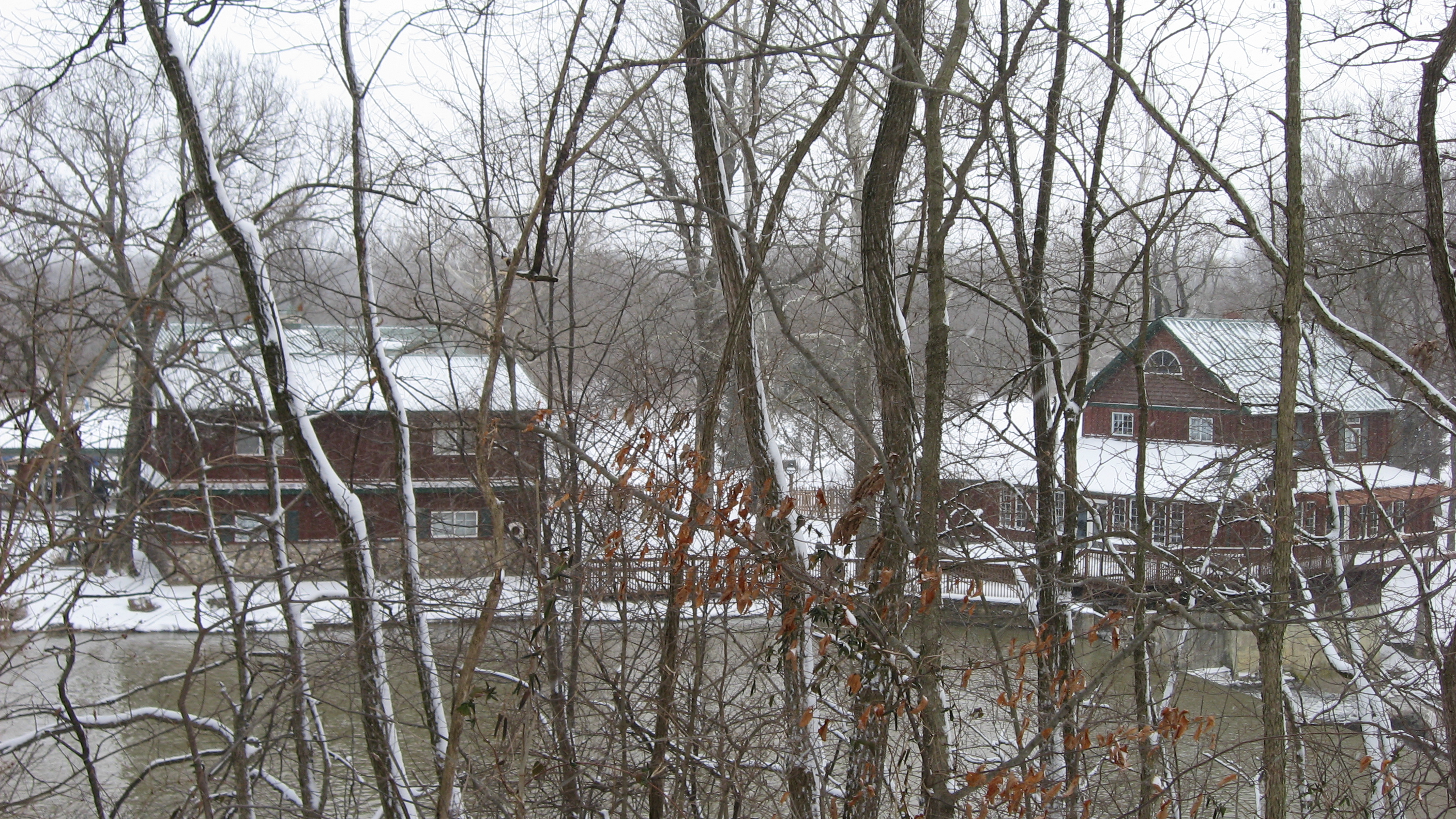 Buildings at the Pipe Creek Falls Resort, located off County Road 850E and seen from County Road 275S north of Walton in Tipton Township, Cass County, Indiana, United States. The resort is listed as a historic district on the National Register of Historic Places.